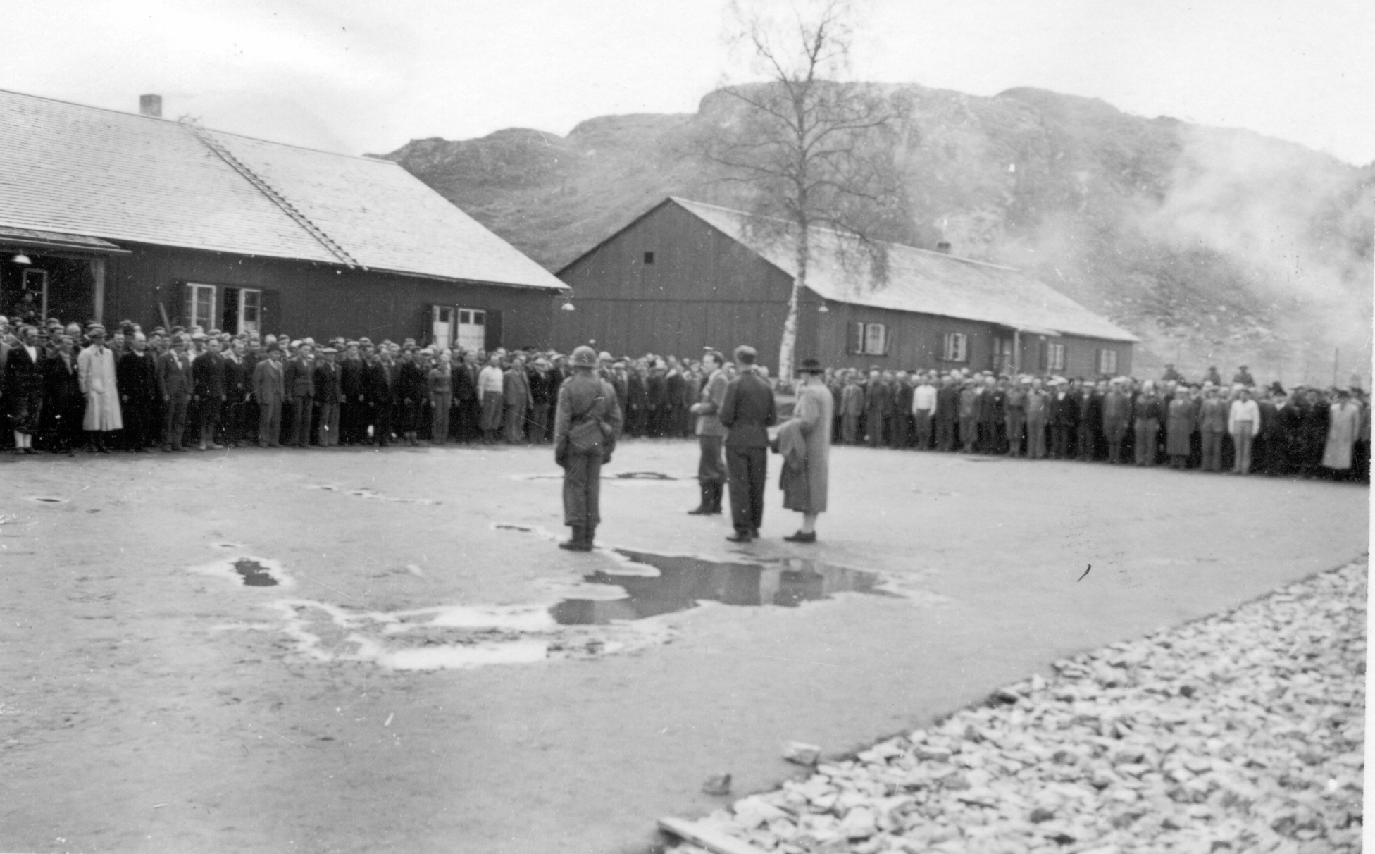 1945 – landssvikfanger har ankommet Falstad. Bildet er tatt på appellplassen mellom hovedbygningen og brakkene. 1945 - prisoners suspected for treason have arrived at Falstad. The picture is taken at the appeal court between the main building and the barracks. Dato/Date: 1945 Fotograf/Photographer: Ukjent/Unknown Sted/Place: Ekne, Nord-Trøndelag, Norge/Norway Arkivreferanse/Archive reference: FSM foto 0700092